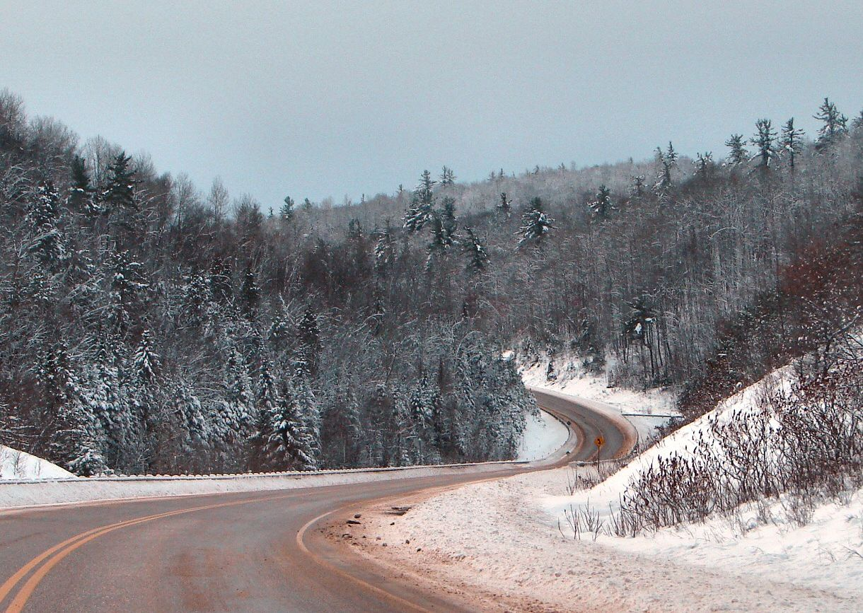 Highway 41 through the Madawaska Highlands, Ontario, Canada